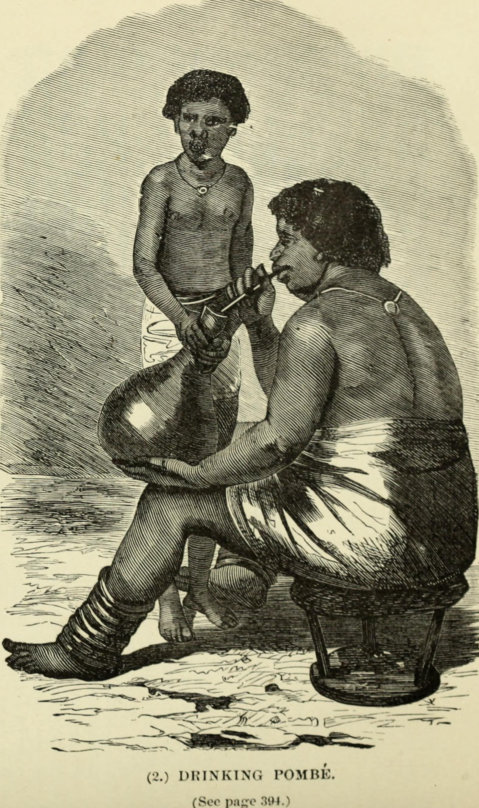 Title: The uncivilized races of men in all countries of the world; being a comprehensive account of their manners and customs, and of their physical, social, mental, moral and religious characteristics. By Rev. J. G. Wood... With new designs by Angas, Danby, Wolf, Zwecker... 1871 Year: 1877 (1870s) Authors: Wood, John George, 1827-1889 Subjects: Ethnology. Manners and customs. Savages Publisher: J. B. Burr and company Text Appearing Before Image: ' Text Appearing After Image: (391) AMUSEMENTS OF THE WEEZEES. 3^5 behind and look on silently. Each danceends with a general shout of laughter orapplause, and then a fresh set of dancerstake their place on the strip of skin. Sometimes a variety is introduced intotheir dances. On one occasion the chief hada number of bowls filled with pombe and setin a row. The people took their grassbowls and filled them again and again fromthe jars, the chief setting the example, anddrinking more pombe than any of his sub-jects. When the bowls had circulated plen-tifiill)^ a couple of lads leaped into the circle,presenting a most fantastic appearance.They had tied zebra manes over their heads,and had furnished themselves with two longbark tubes like huge bassoons, into whichthey blew with all their might, accompan)^-ing their shouts with extravagant contor-tions of the limbs. As soon as the pombewas all gone, five drums were hung in aline upon a horizontal bar, and the per-former began to hammer them furiously.Inspired by the so